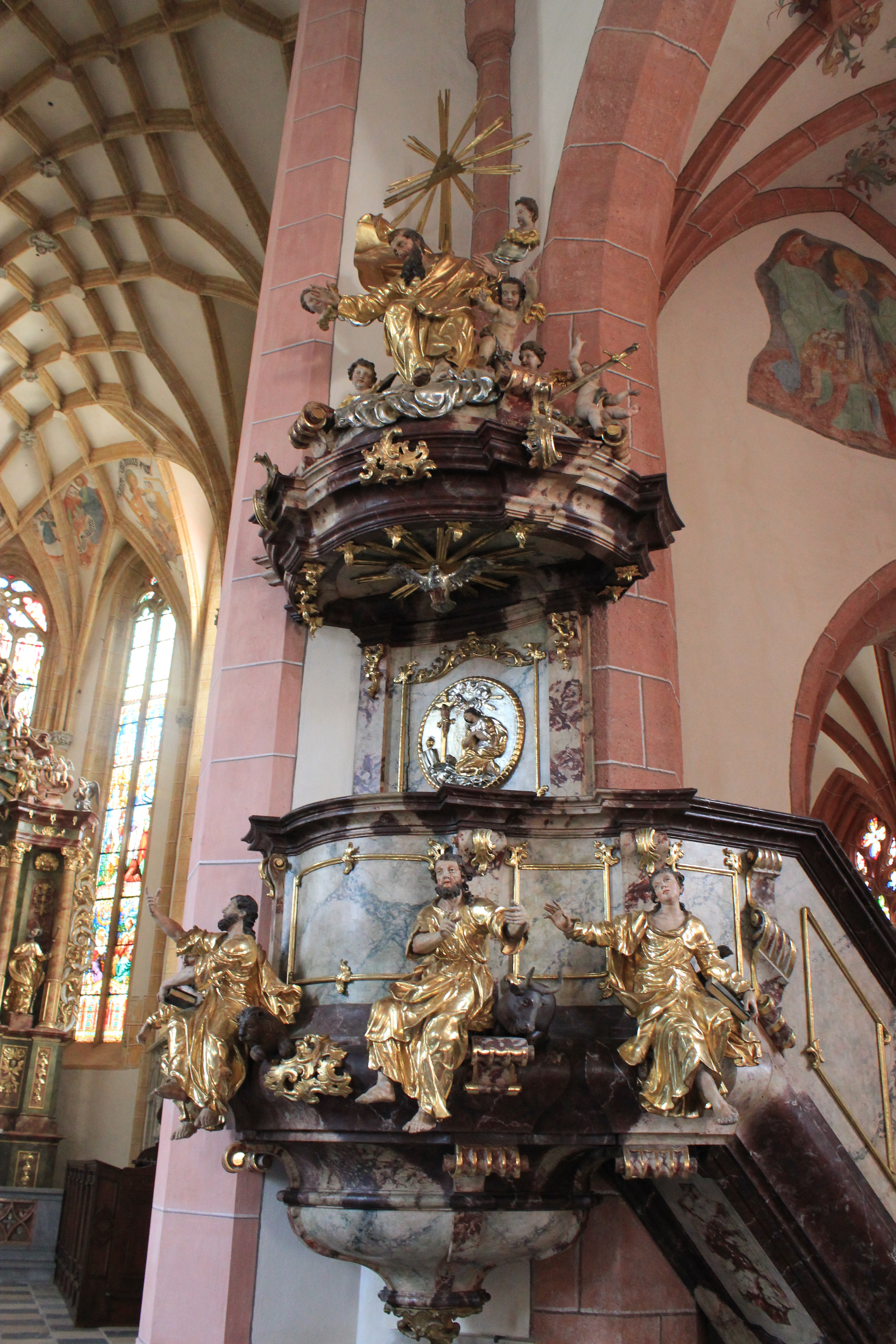 Parish-church in Völkermarkt - pulpit